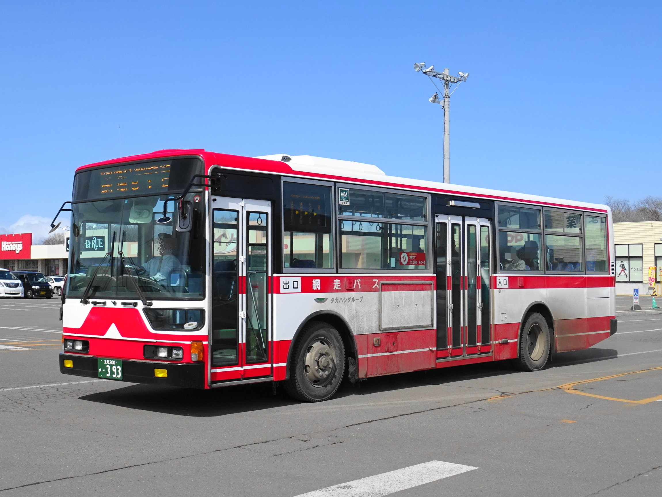 Abashiri city line